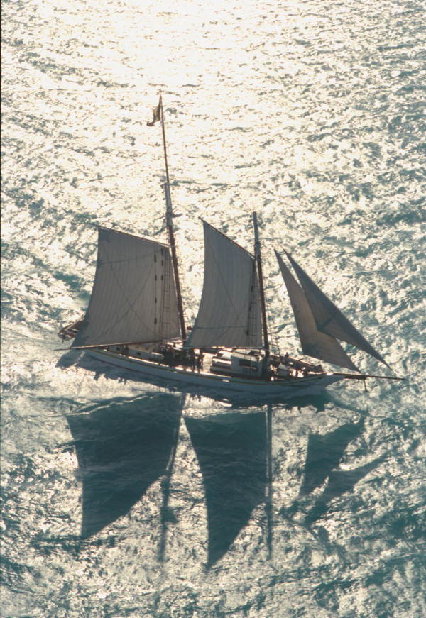 Local call number: DM2269 Title: Schooner Western Union returning to Key West, Florida Date: February 1985 General note: The schooner Western Union, built in Key West, Florida, in 1939, operated as a cable-laying vessel until its retirement in 1974. It was listed on the National Register of Historic Places in 1984 and designated as the flagship of the State of Florida in 2012. Physical descrip: 1 photonegative - col. - 35 mm. Series Title: Dale M. McDonald Collection Repository: State Library and Archives of Florida, 500 S. Bronough St., Tallahassee, FL 32399-0250 USA. Contact: 850.245.6700. Persistent URL